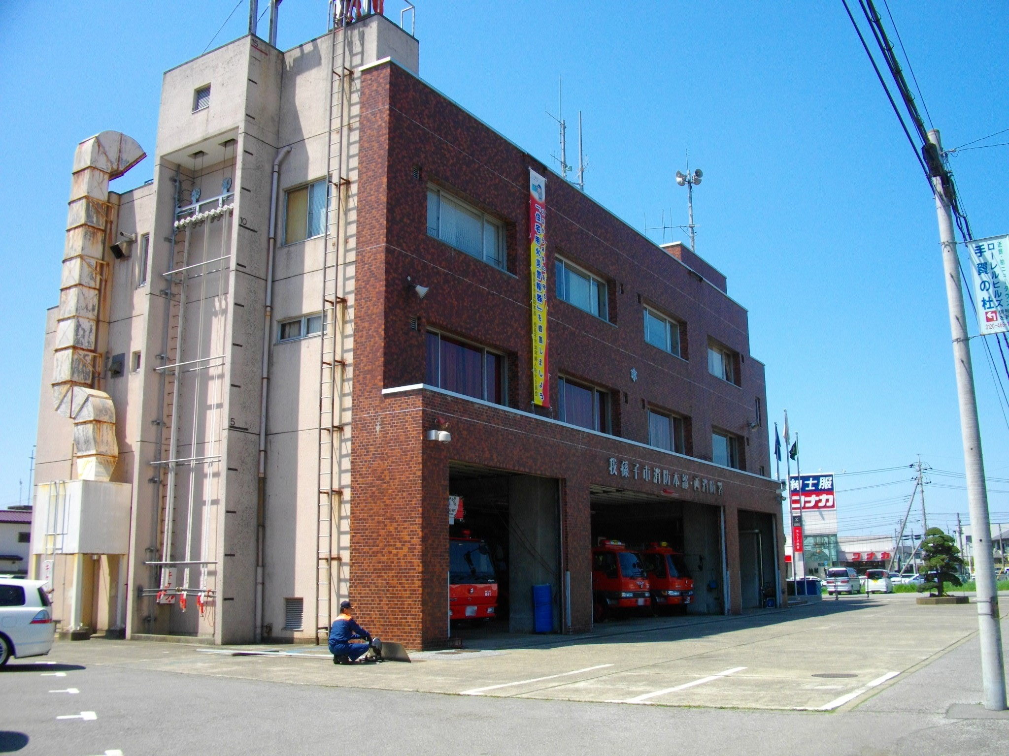 Abiko City Fire Department